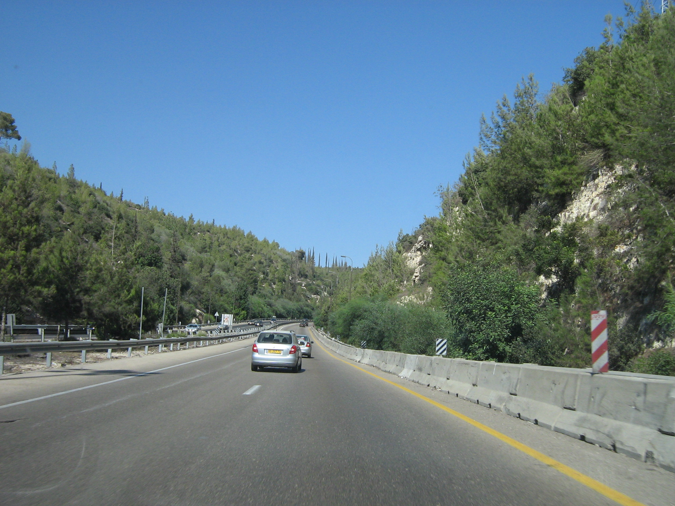 Israel Highway 1 from Jerusalem to Tel Aviv (as it looked before undergoing complete reconstruction in the mid-to-late 2010s)